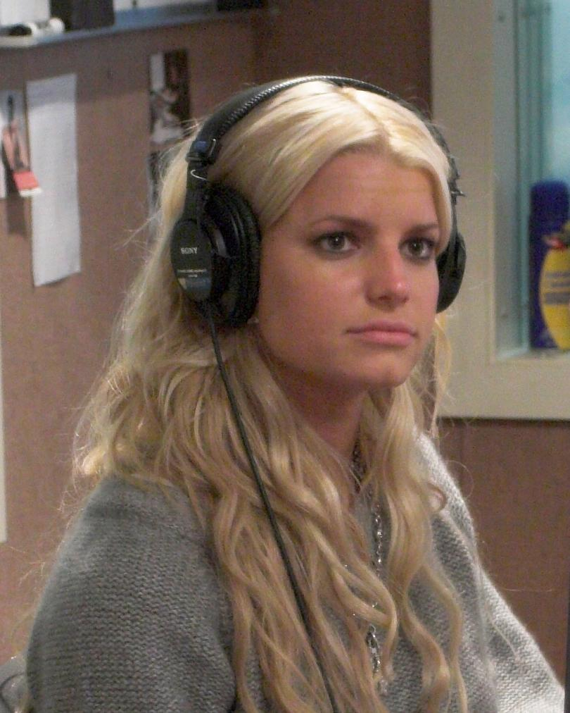 Jessica Simpson at KBKS radio station in Seattle, Washington, United StatesIMG_2449